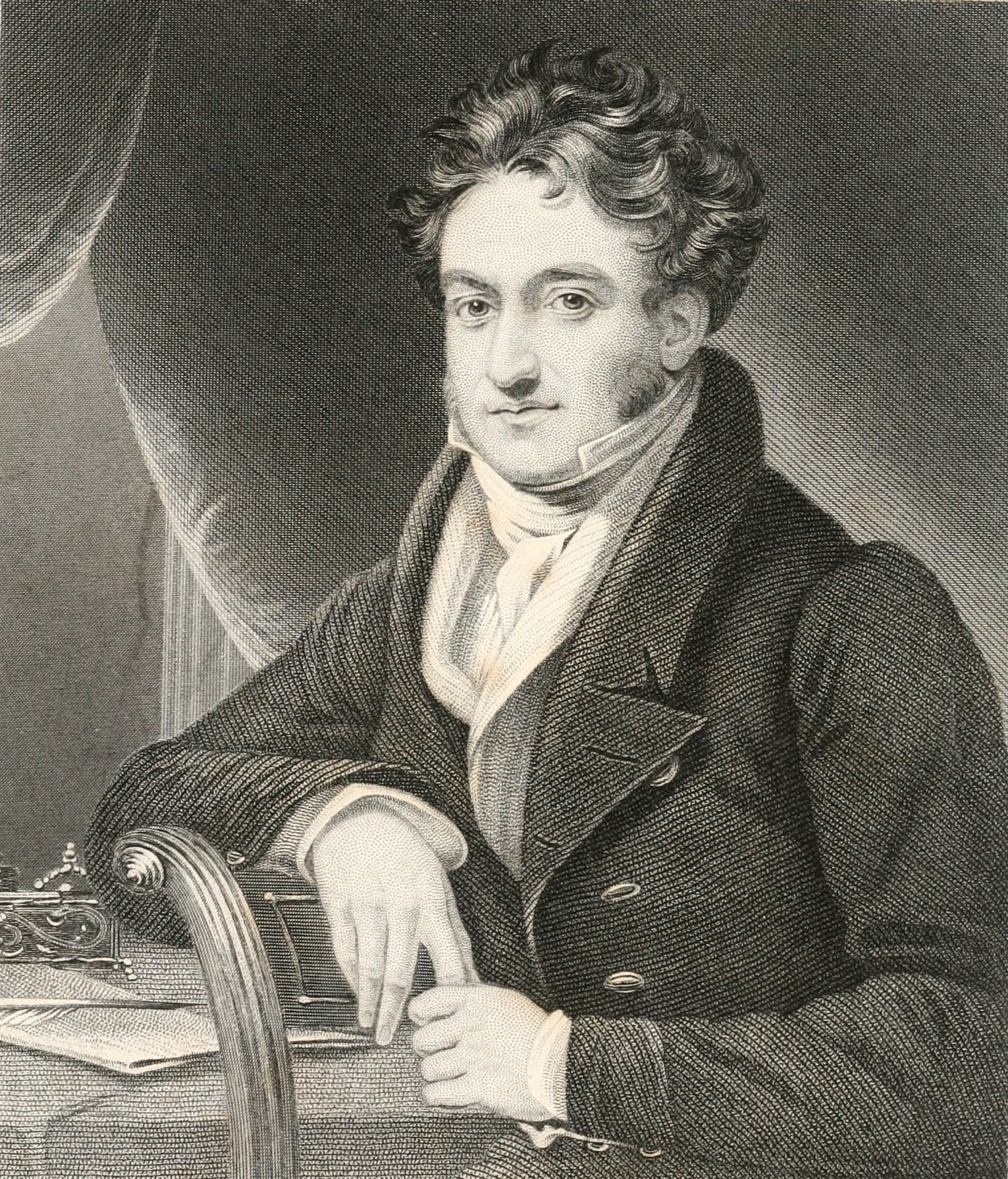 Frederick Henry Yates, comedian. Born 1797, Died 1842. Engraved by Joseph Brown from the portrait by Lonsdale in the Garrick Club